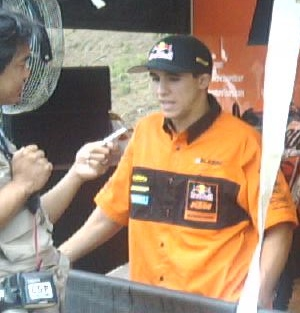 KTM Red Bull Rider Mike Alessi is interviewed by a reporter at his pit.